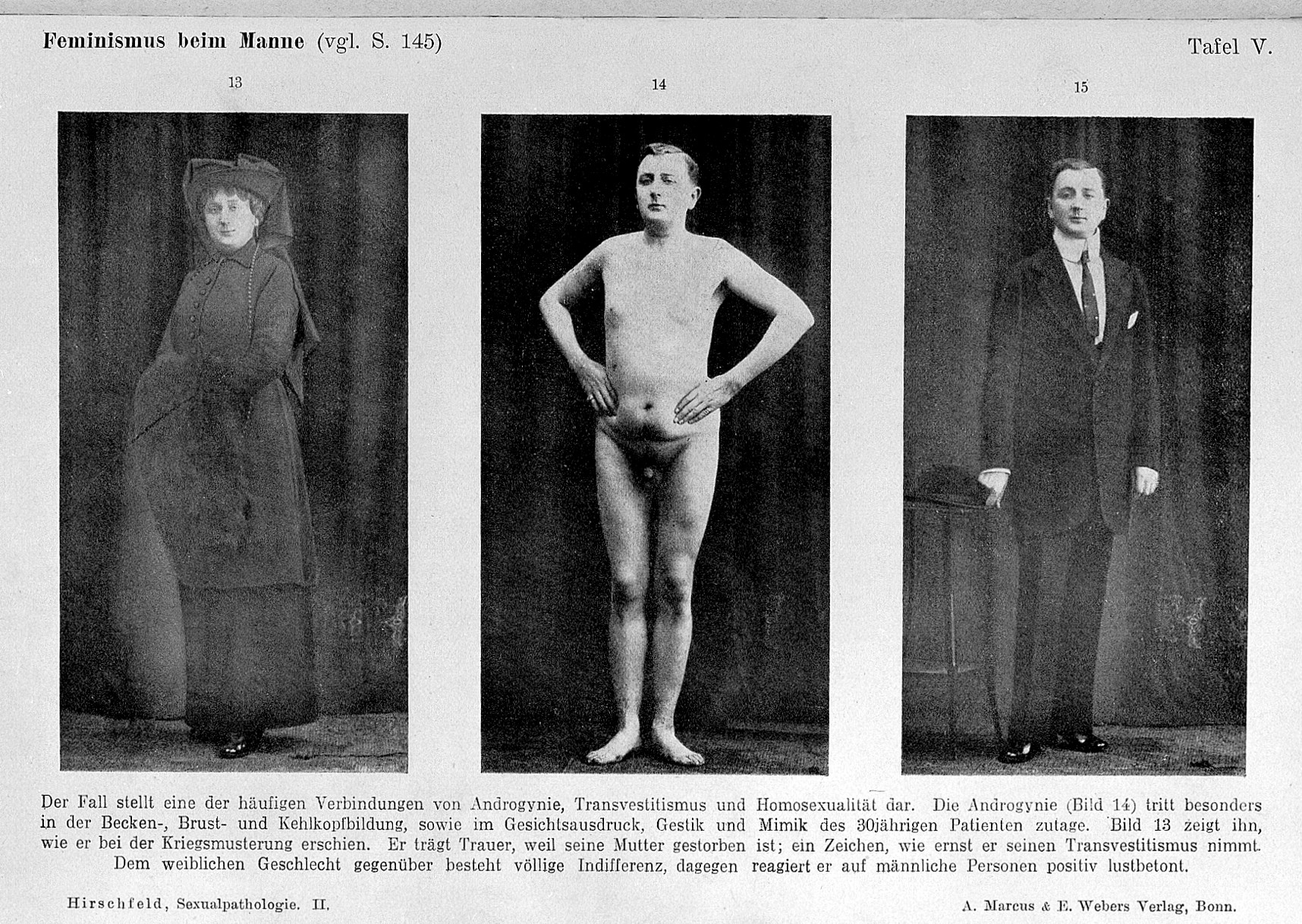 Feminismus beim Manne General Collections Keywords: sexualpathologie; Magnus Hirschfeld